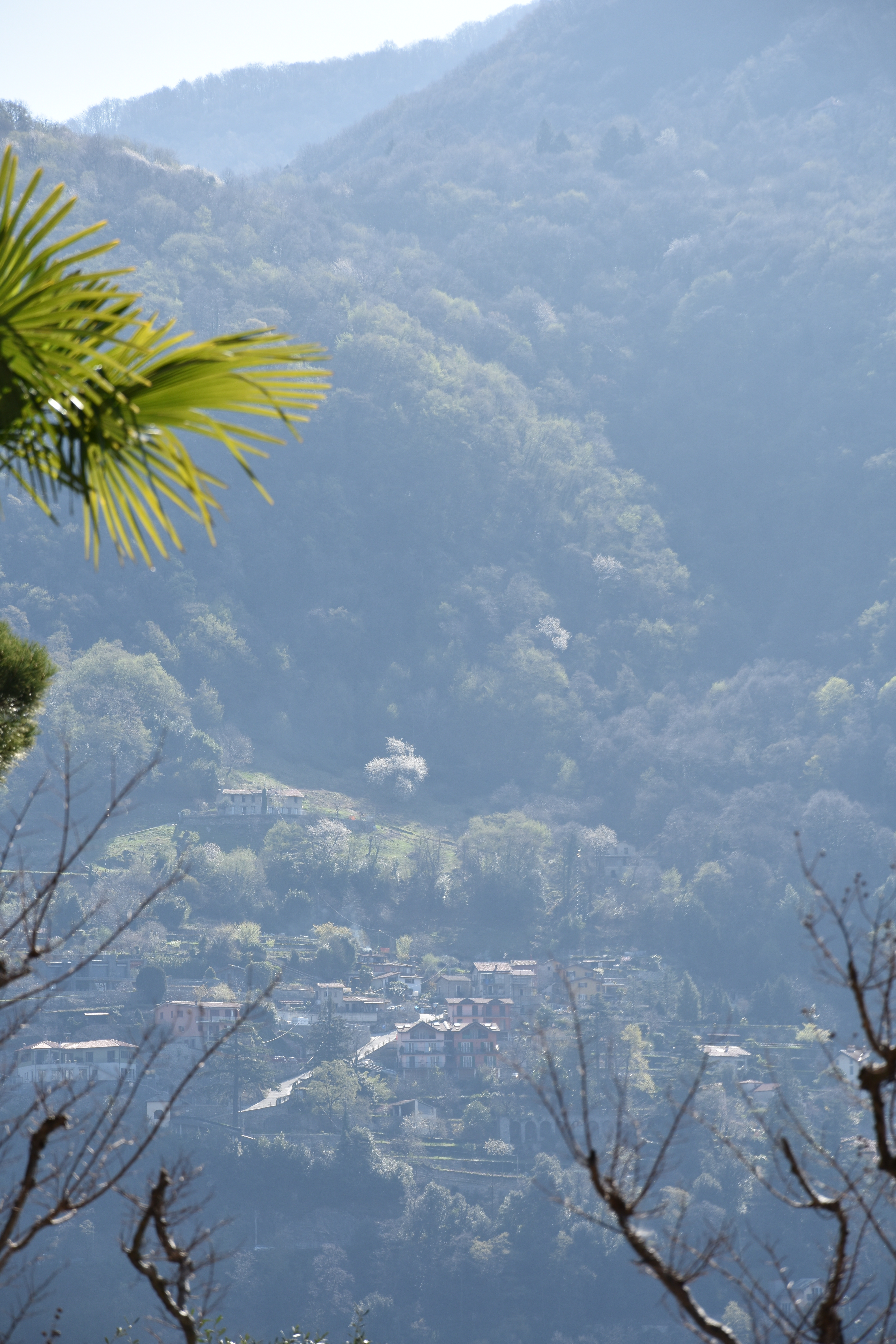 Rasina, in the municipality of Torno, seen from Villa Lucini Passalacqua, in the opposite shore of Lake Como, province of Como, Italy.